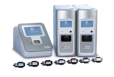 Adapted from Nanosphere, Inc.